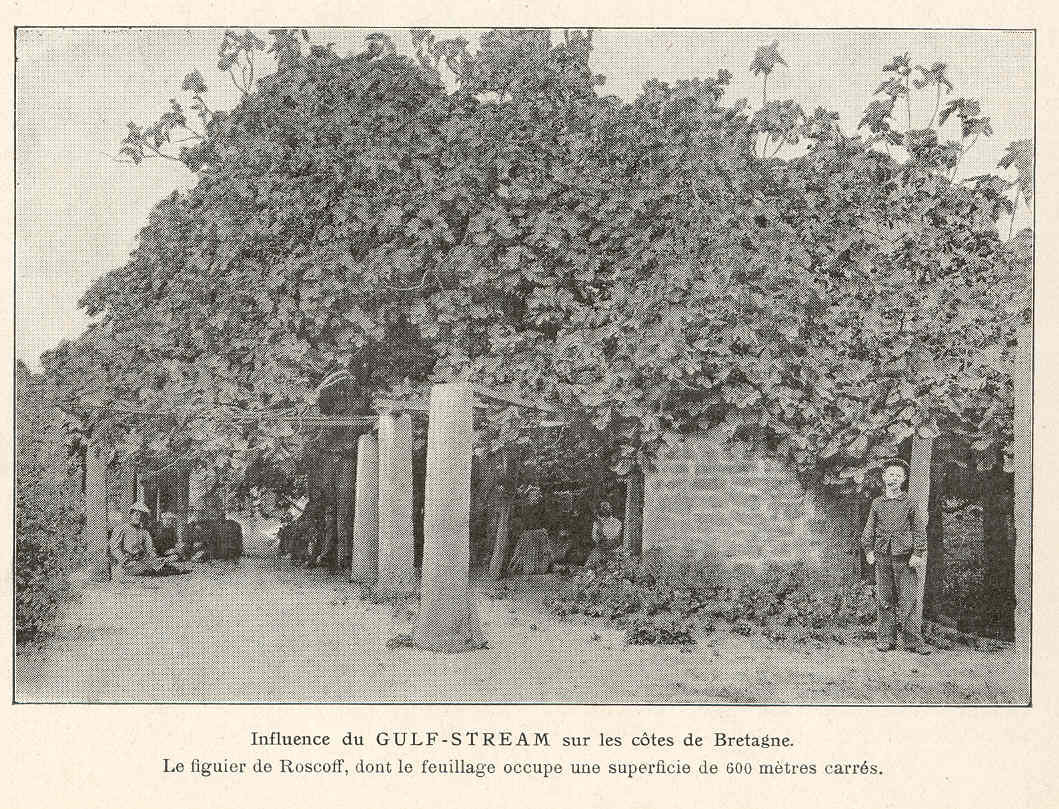 Figuier de Roscoff, dont le Feuillage Occupe une Superficie de 600 Metres Carres Subject: Fig, Brittany (France) Geographic Subject: France--Brittany Tag: Plants